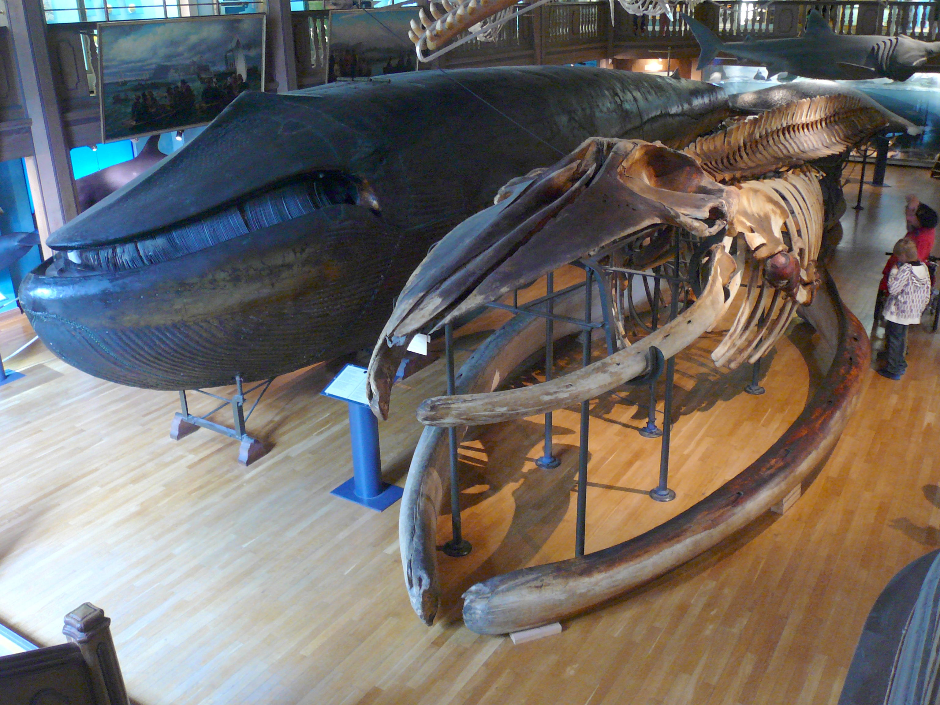 Skeleton and taxidermy preparation of a young male blue whale (Balaenoptera musculus) as on display at the 'Göteborg Natural History Museum', Sweden.